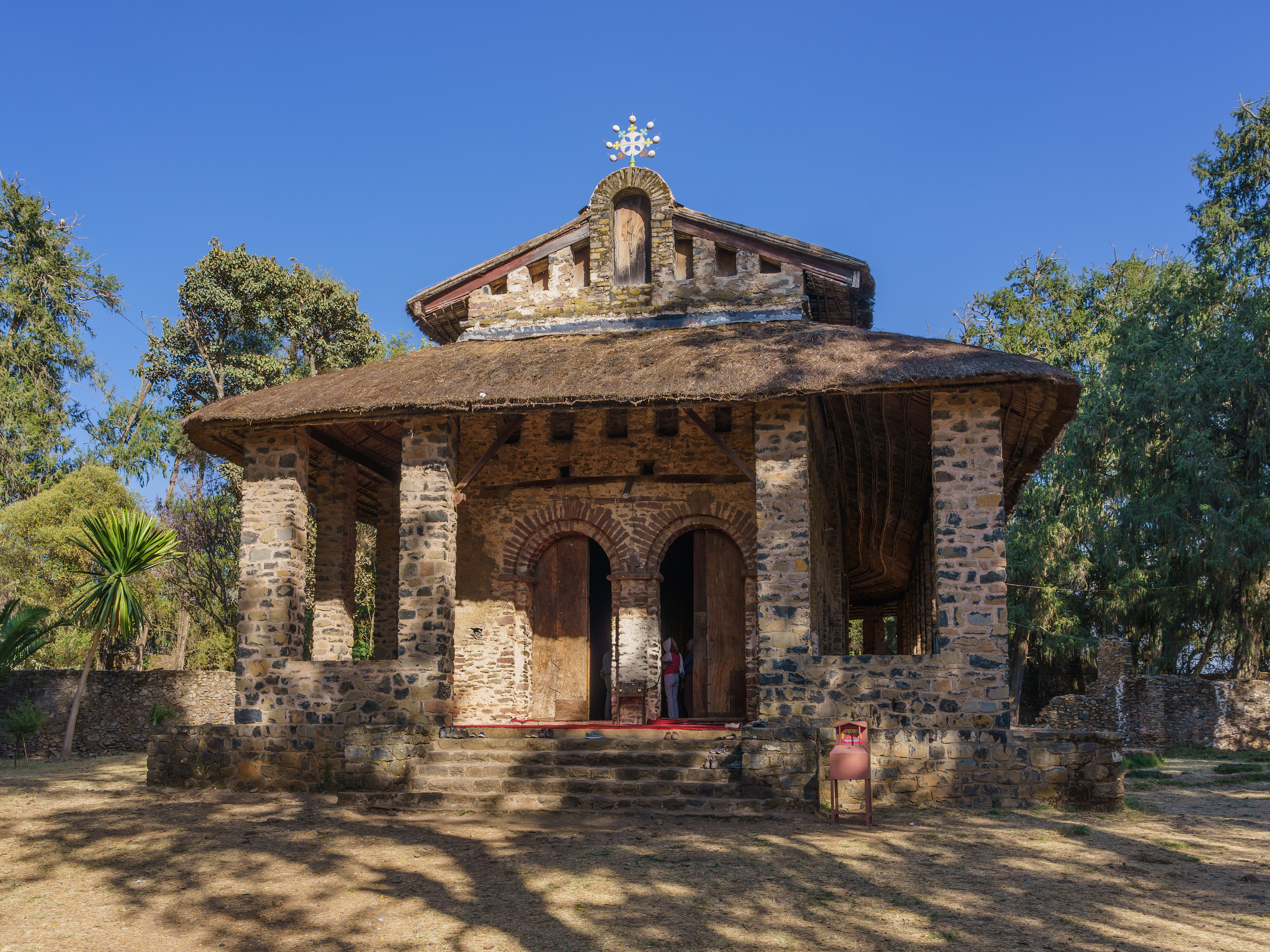 Monastery of Debre Berhan Selassie in Gondar, Ethiopia